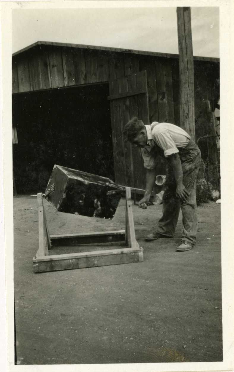 Mixing "Paris green" and road dust preparatory to dusting streams and breeding places of mosquitoes. World War 2. (ref Army Medical Museum :Reeve049115).